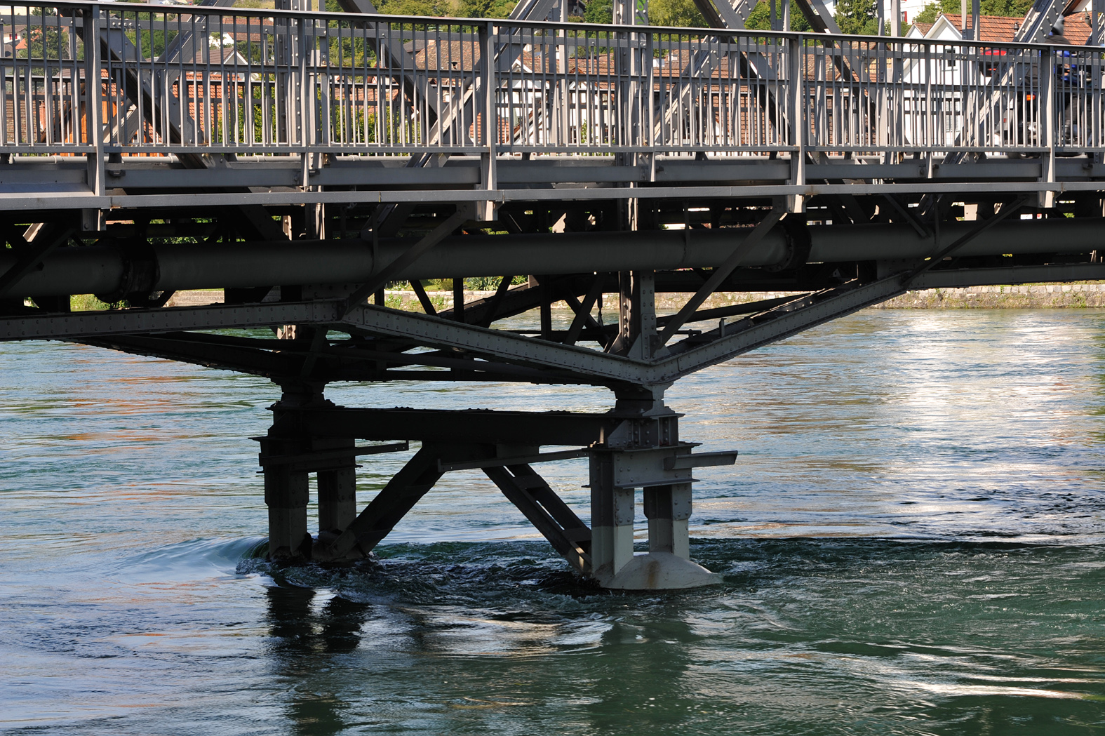 Road bridge between Neuhausen am Rheinfall and Flurlingen; Schaffhausen and Zurich, Switzerland.